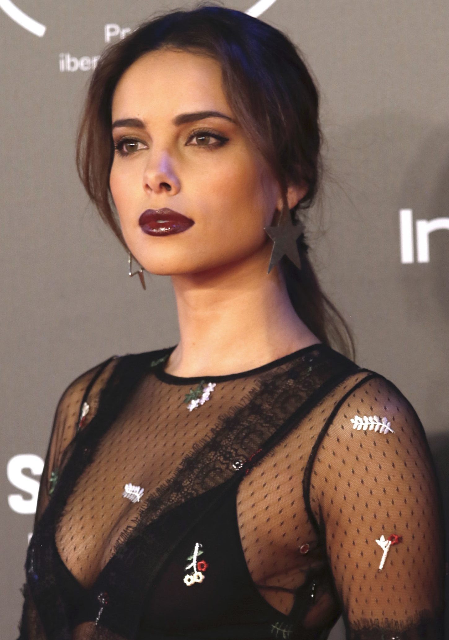 En el Teatro de la Ciudad Esperanza Iris, se realizó la 4ª Entrega del Premio Iberoamericano de Cine, Fenix, previo a la ceremonia, nominados, conductores, presentadores y elencos, desfilaron por la alfombra roja.